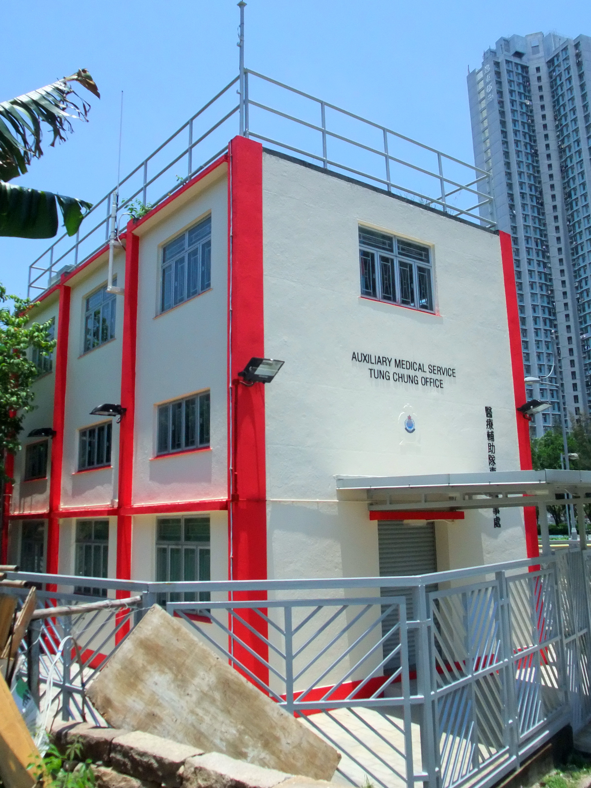 Auxillary Medical Services Tung Chung Office, Lantau Island, Hong Kong.